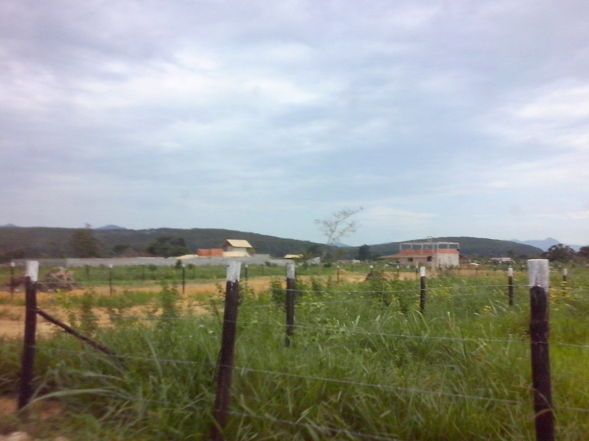 Land divisions in Bom Jesus do Galho, Minas Gerais, Brazil.